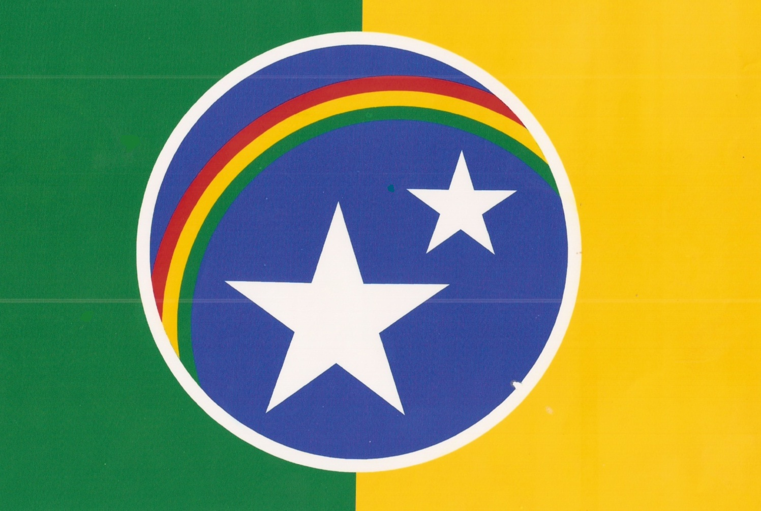 Terra Nova City's flag (Pernambico - Brazil)